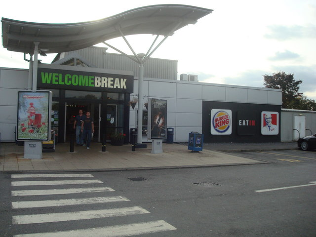 Newport Pagnell Services, M1 southbound